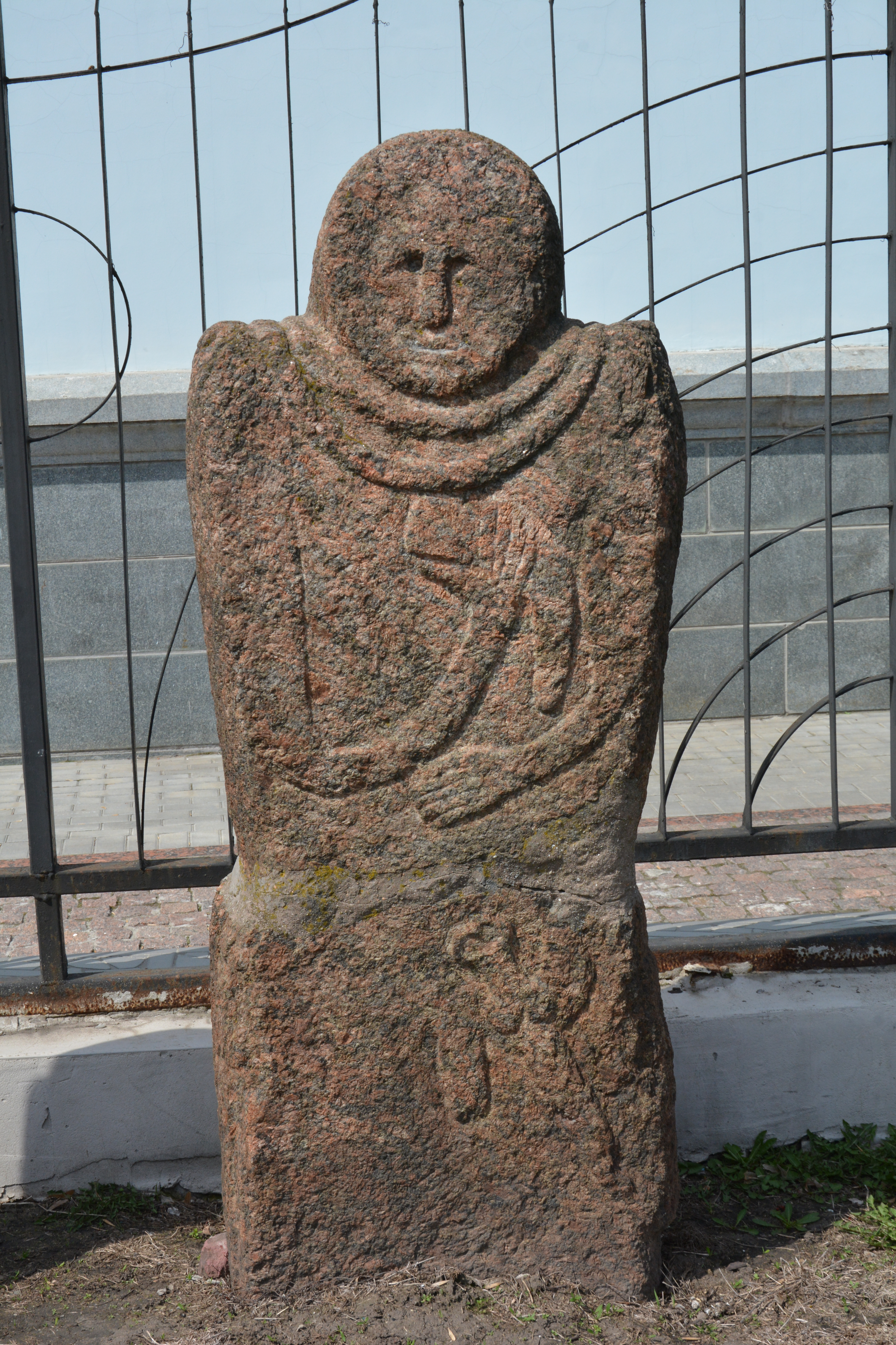 Scythian stone sculpture VI-V century B.C. made from red-black granite, revealed near Mederove village (Kirovograd region in Ukraine) in year of 1964 by Oleksiy Terenozhkin, an outstanding archeologist specialized in Scythian history studies in Ukraine. The statue belongs to unique collection of Scythian stone sculpture of Kirovograd regional museum of local history; the collection includes 6 statues of VI – IV century B.C. that characterizes it as the one of the largest in Ukraine considering the age of sculptures